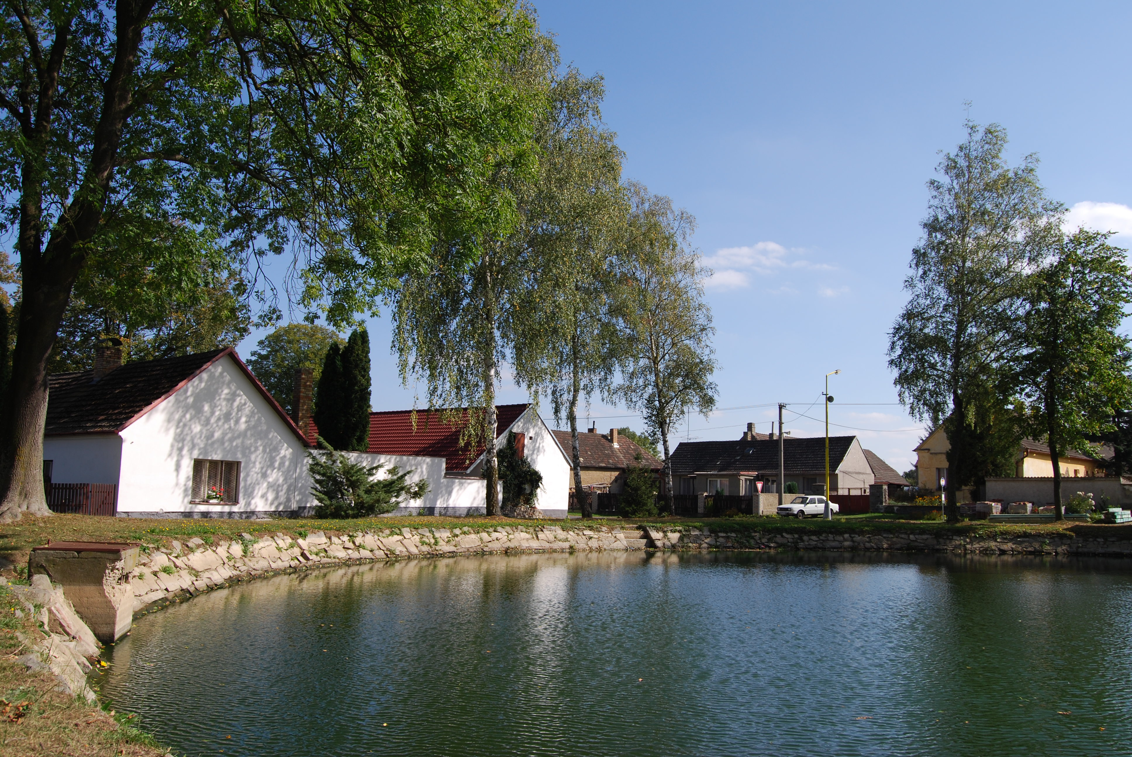 Smetanova Lhota village in Písek District, Czech Republic.